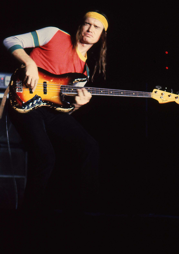 Jaco Pastorius in Amsterdam, 1980